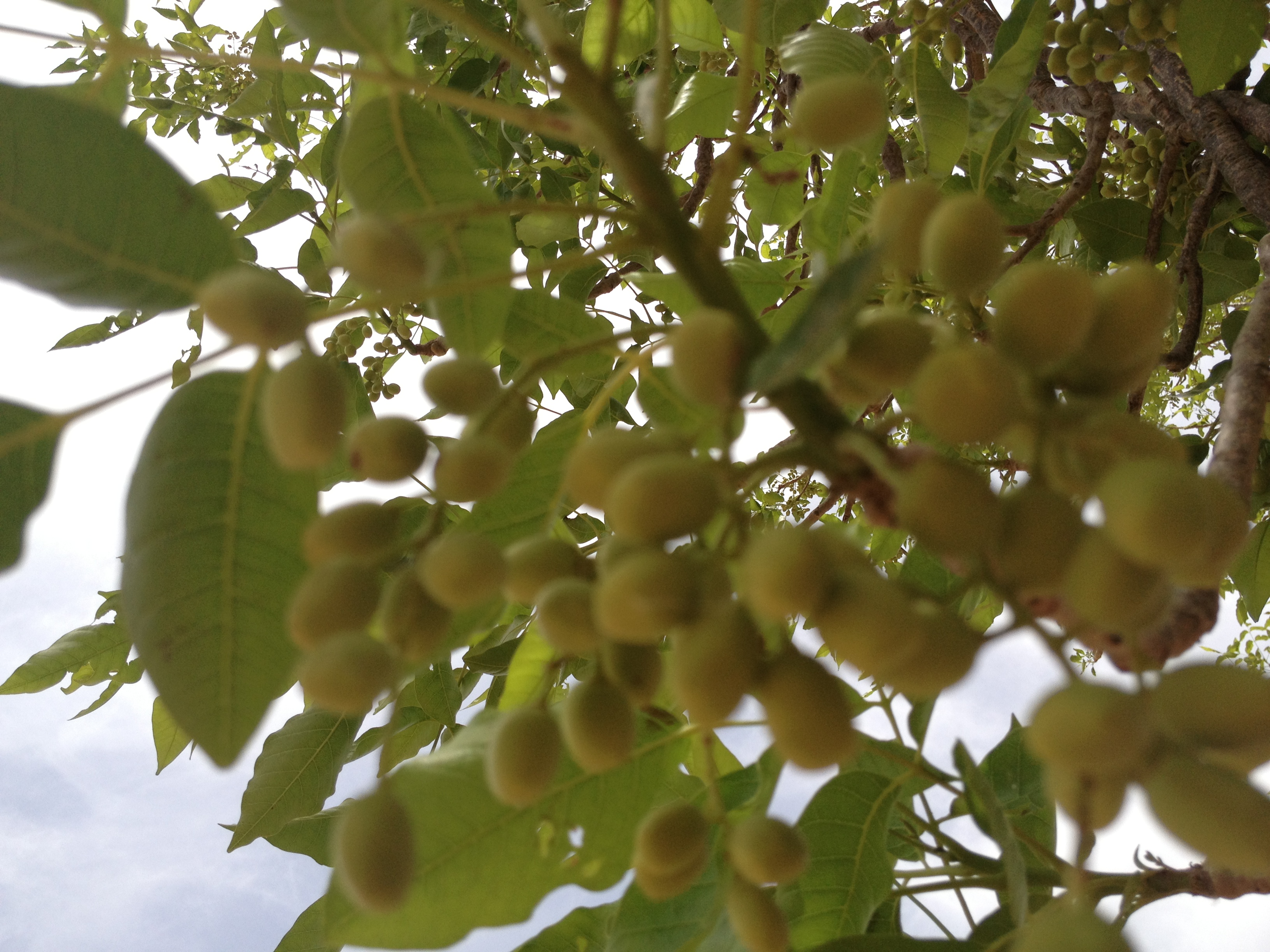 le fruits de Karité This is an image of "African people at work" from Burkina Faso